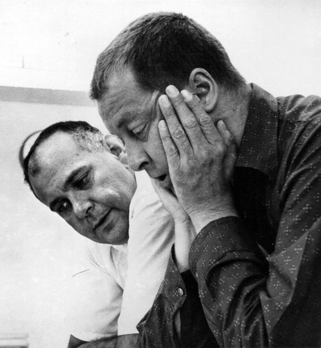 Dean Fraser was a bacterial virologist and a Professor in the Dept. Microbiology at Indiana University. He collaborated with Henry Mahler. I worked as a technician for both men at different times. I (Eric Martz) took this photo one day while they were looking at new data and discussing interpretations.